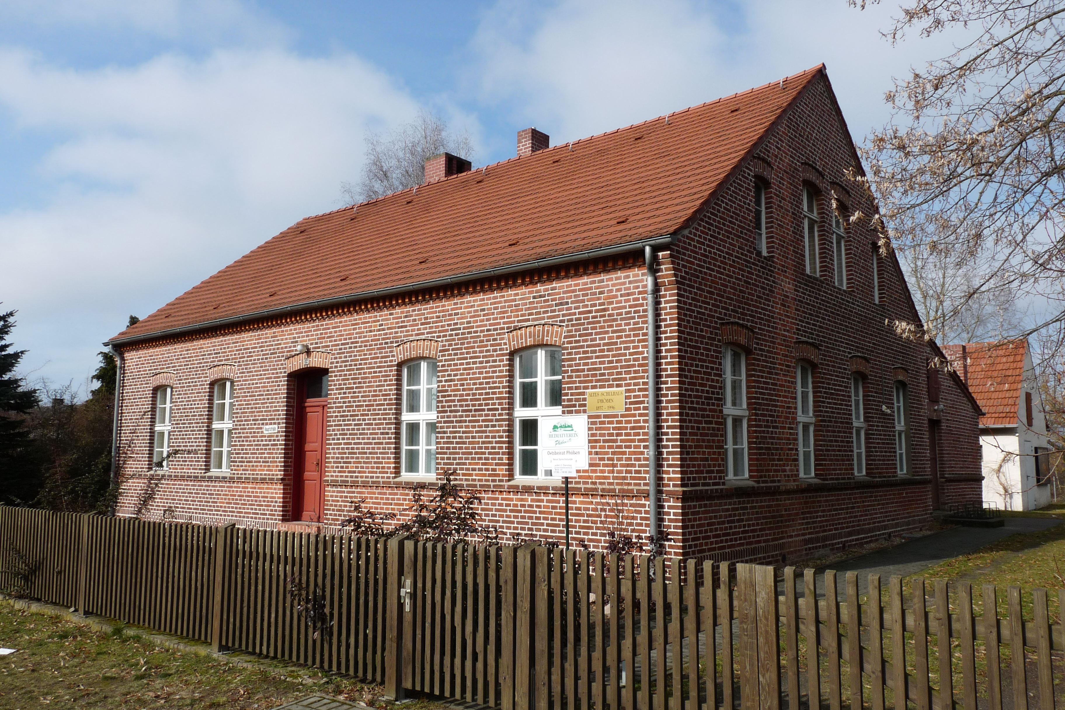 Former school building in the village Phöben, Werder (Havel)